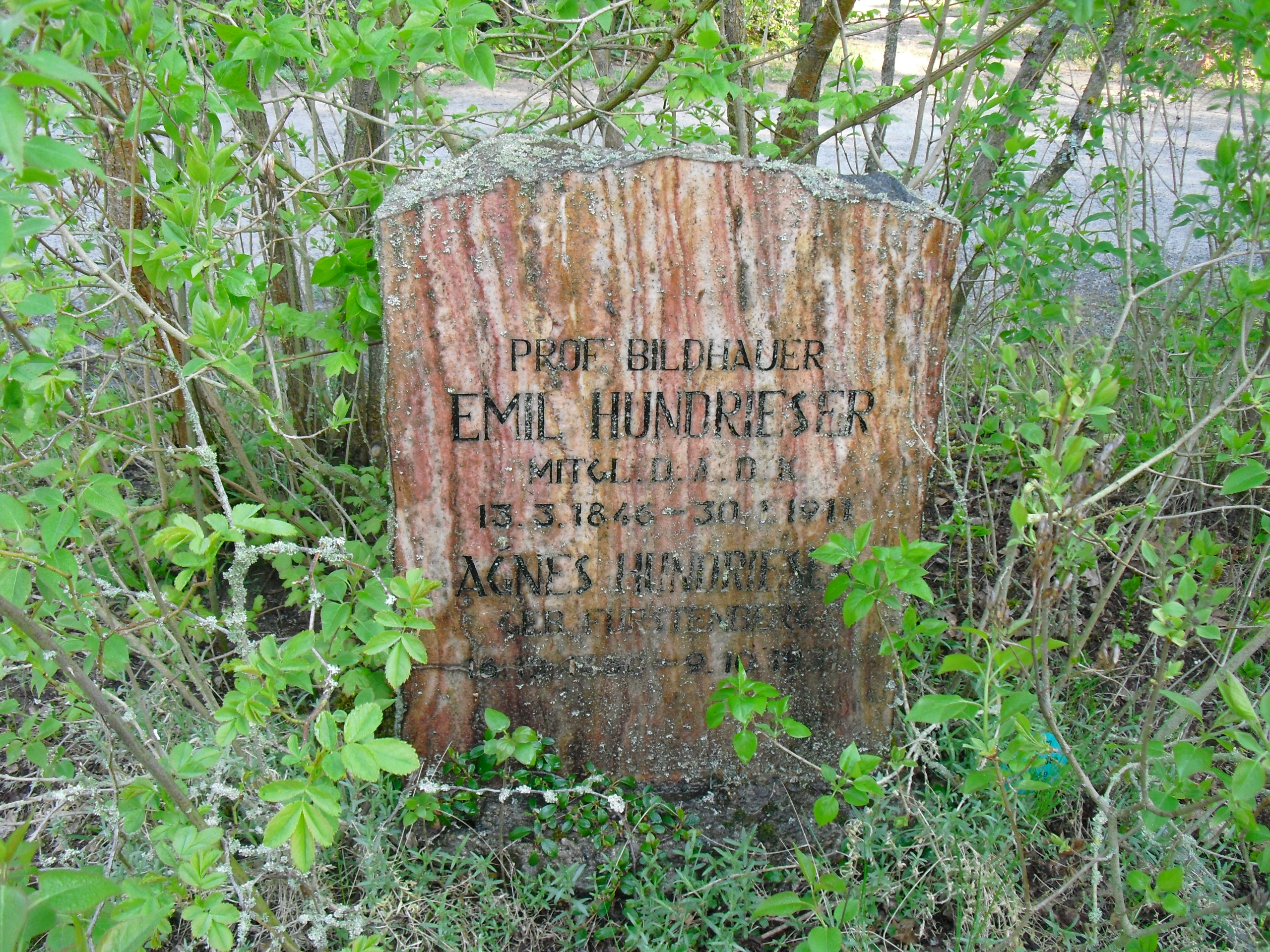 Grave of sculptor Emil Hundrieser in Parkfriedhof Lichterfelde in Berlin, Germany.